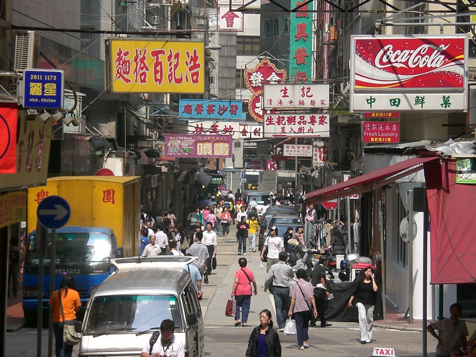 Author= DDMLL 禧利街, 中西區, 上環, Hillier Street, Sheung Wan, Hong Kong